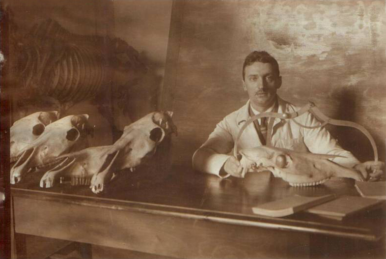 Tadeusz Vetulani